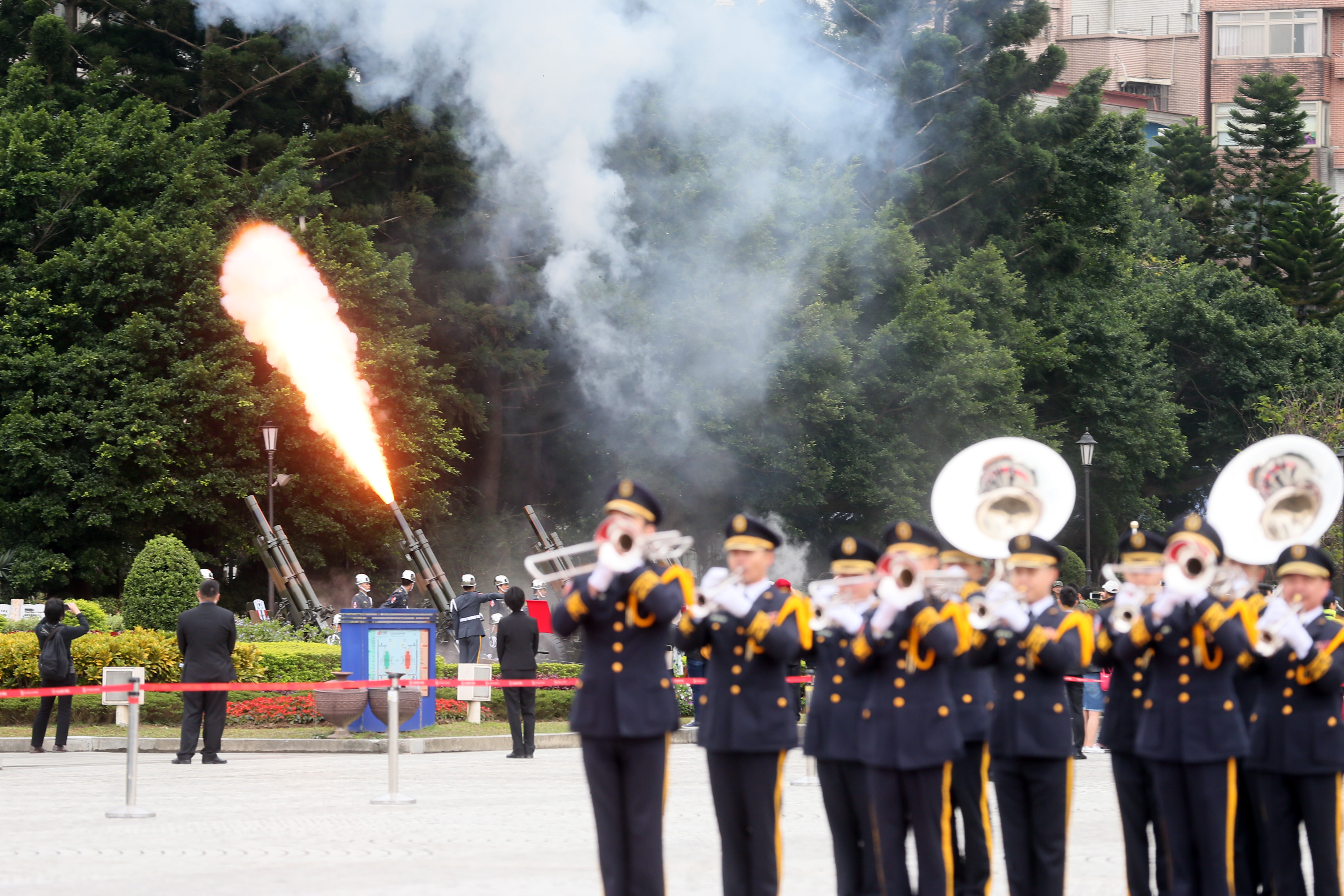 During the welcoming ceremony featuring full military honors, a 21-gun salute and the playing of the national anthems of the ROC and the Republic of Nauru are carried out by the tri-service honor guards. (President Tsai welcomes Republic of Nauru President Baron Divavesi Waqa and Mrs. Waqa with full military honors, 2017/03/07) 授權方式及範圍：中華民國總統府│政府網站資料開放宣告 Authorization Method & Scope: Office of the President, Republic of China (Taiwan) | Government Website Open Information Announcement